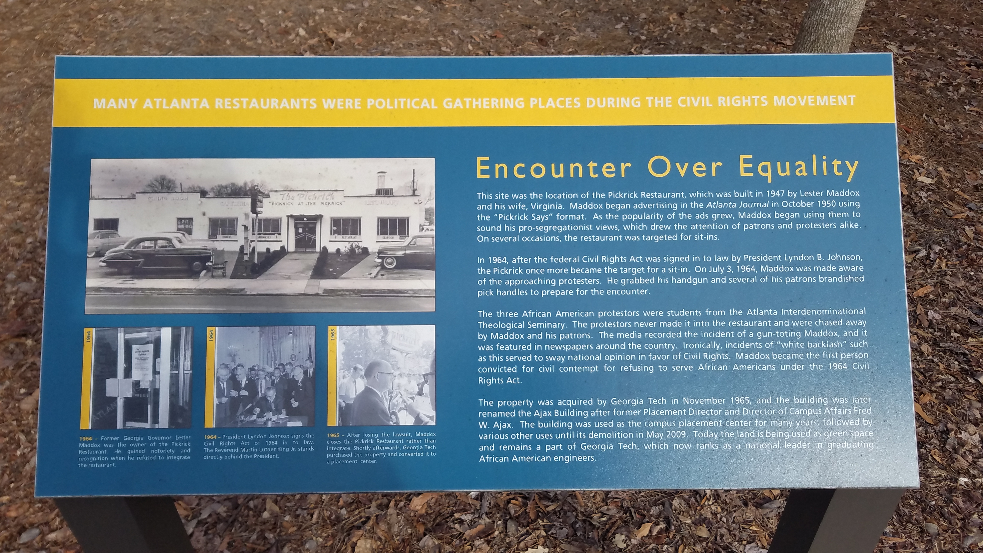 Encounter Over Equality sign outside the south building of the Center Street Apartments on the main campus of the Georgia Institute of Technology in Atlanta, Georgia, United States. Sign describes the civil rights significance of the site.